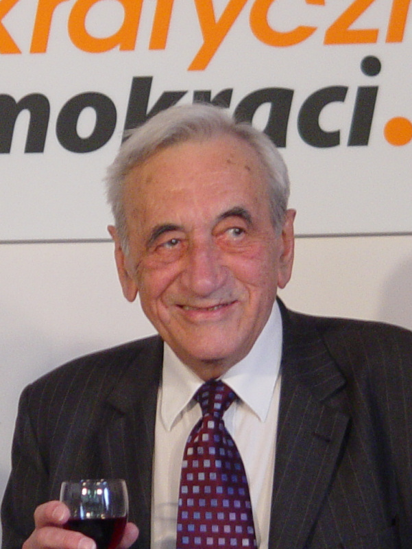 Tadeusz Mazowiecki on his 80th birthday party in PD HQ